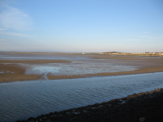 Low tide at Traeth y Gribin A view looking north from the footpath on the Stanley Embankment across the sands of Traeth y Gribin. The housing estate of Newlands Park can be seen on the right.